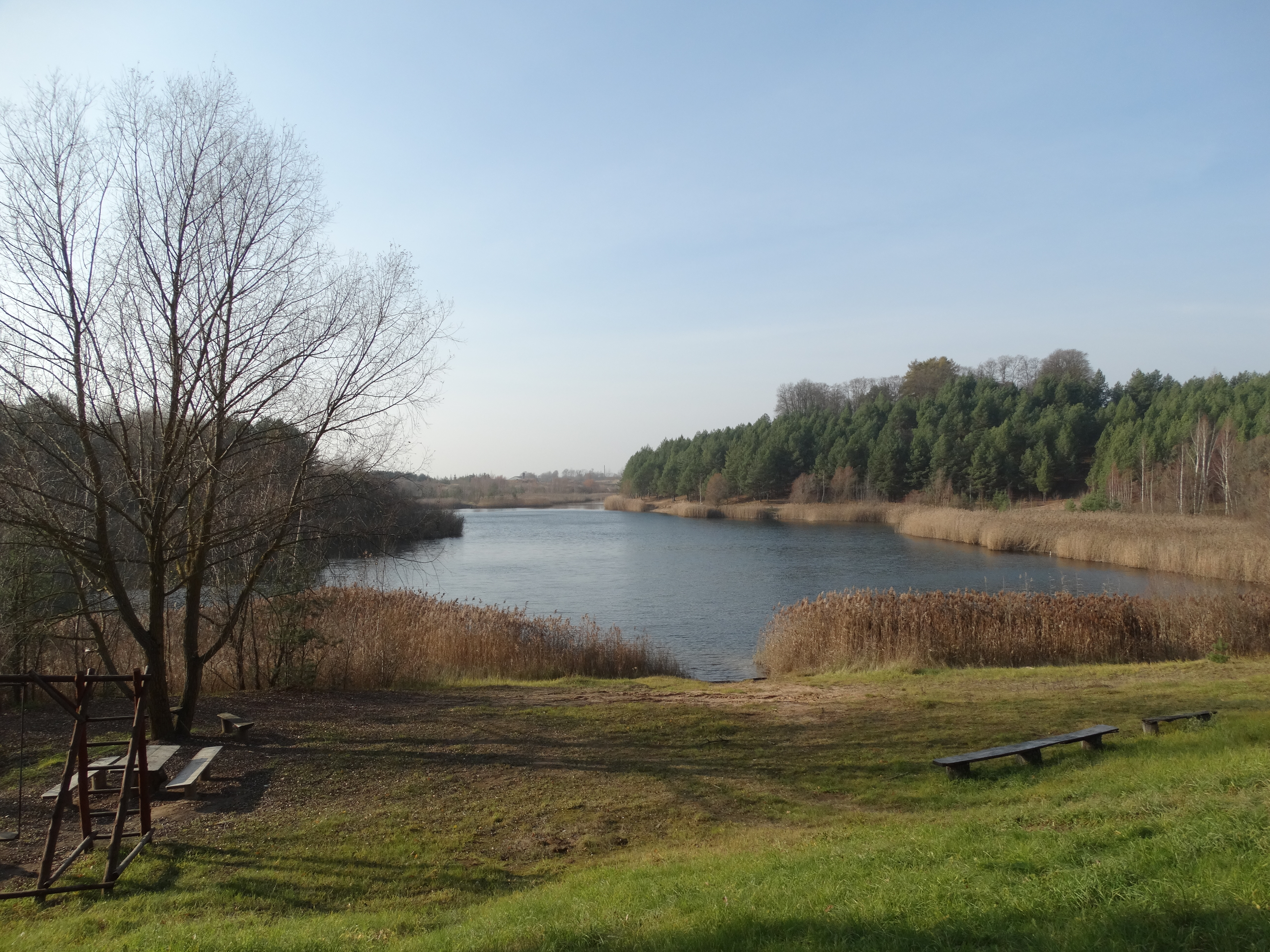 Pond, Daujėnai, Pasvalys District, Lithuania